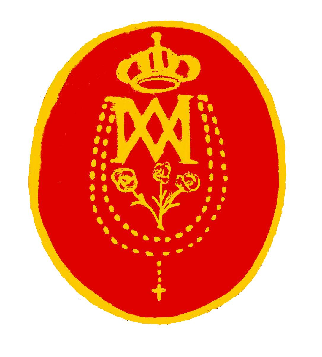 Coat of arms of Rosary Brotherhood(Taranto)